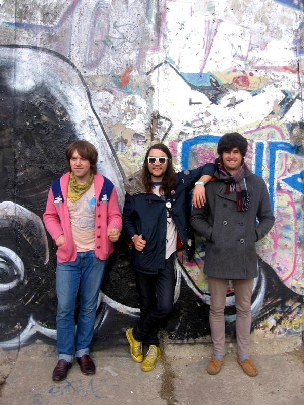 The Pharmacy in front of the Berlin wall on their first tour.